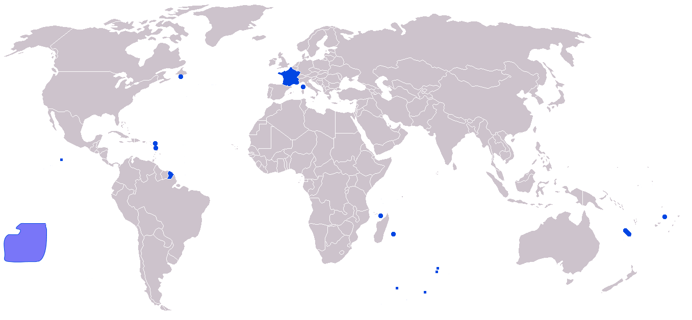 This is a label free version of Image:Outre-mer eo.png.